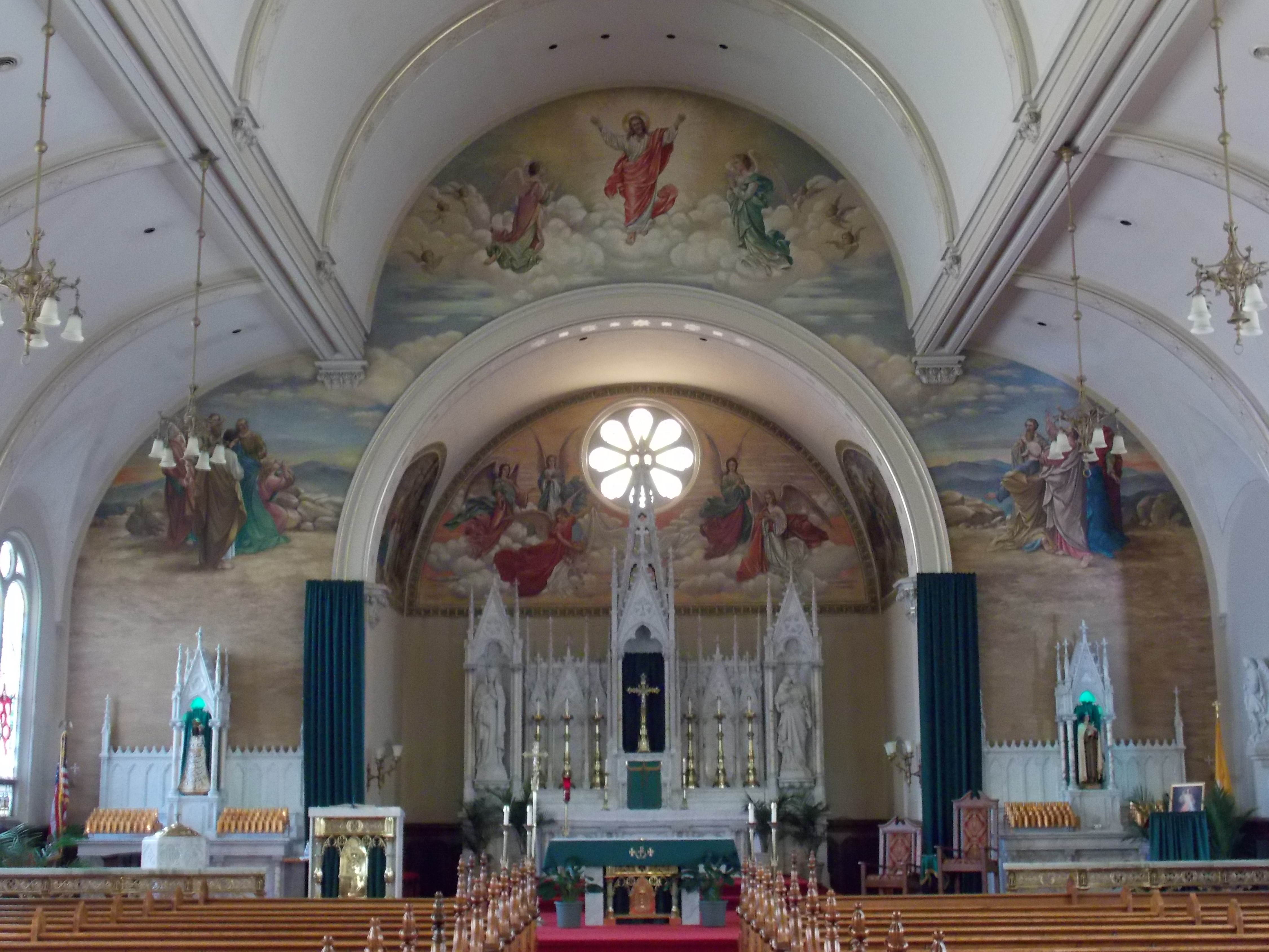 The interior of the Basilica of St. Michael the Archangel, Loretto, Pennsylvania.